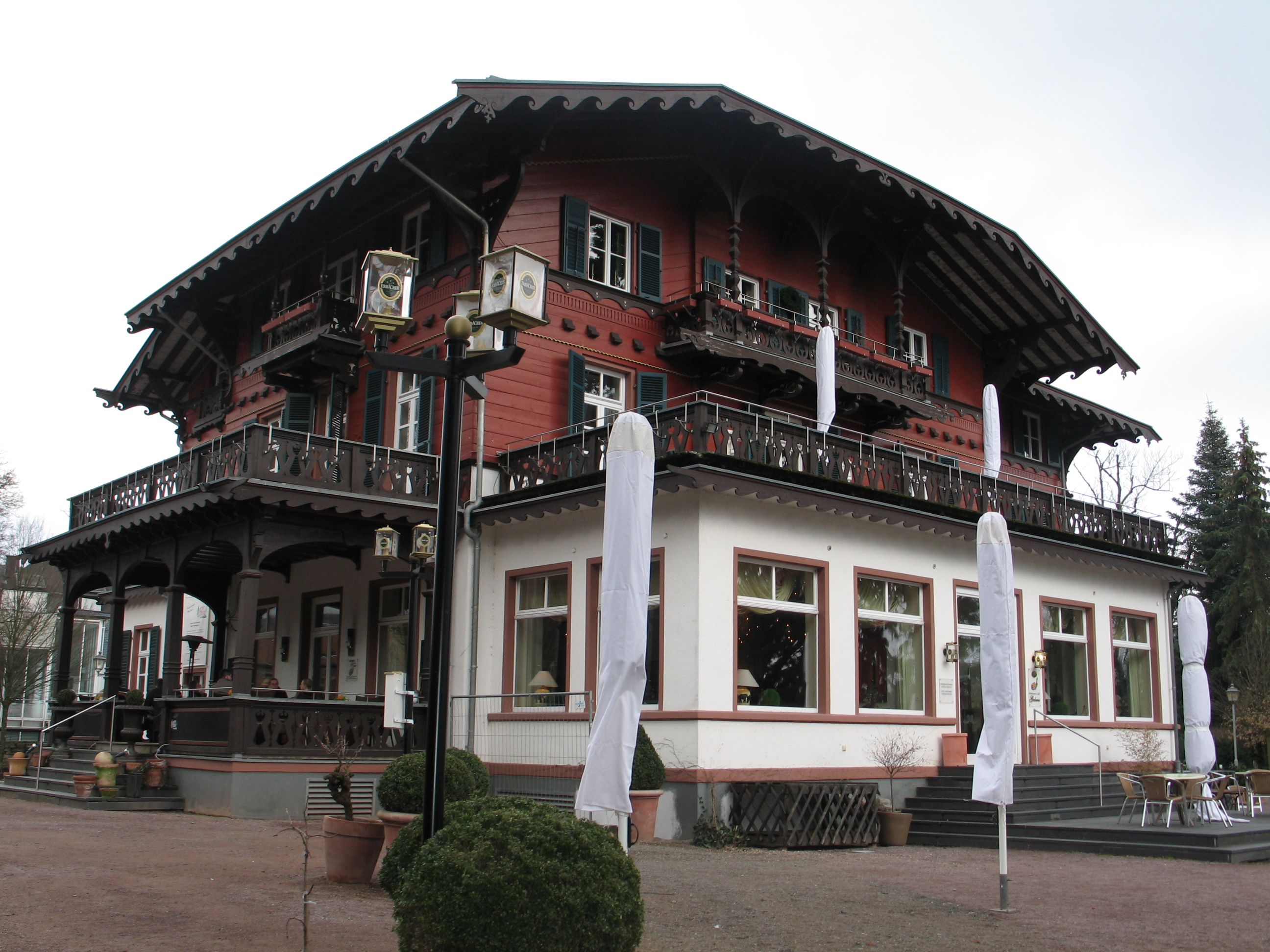 Villa Borgnis, Koenigstein im Taunus